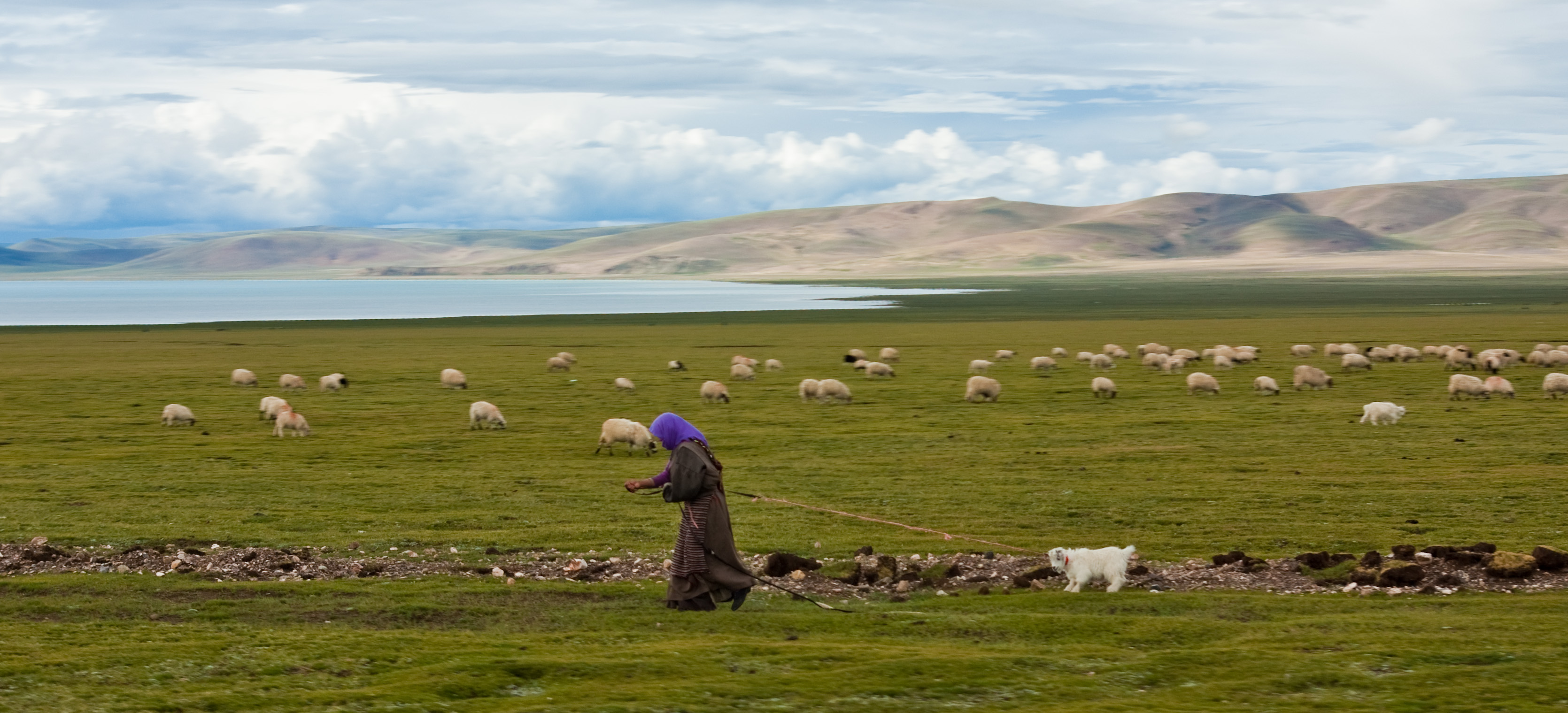 A women near of the Namtso